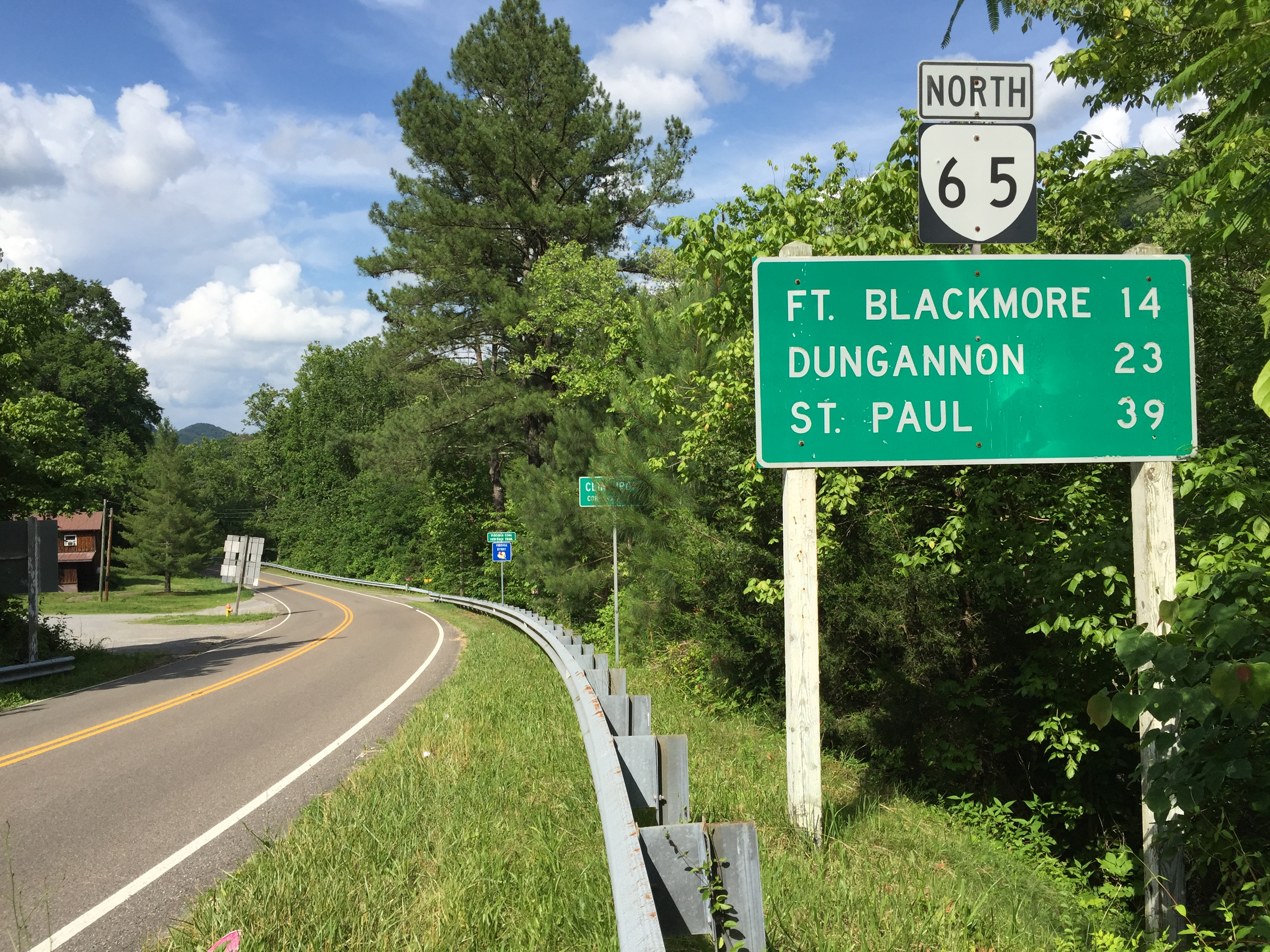 View north along Virginia State Route 65 (2nd Avenue) at U.S. Route 23, U.S. Route 58 and U.S. Route 421 (Orby Cantrell Highway) in Clinchport, Scott County, Virginia